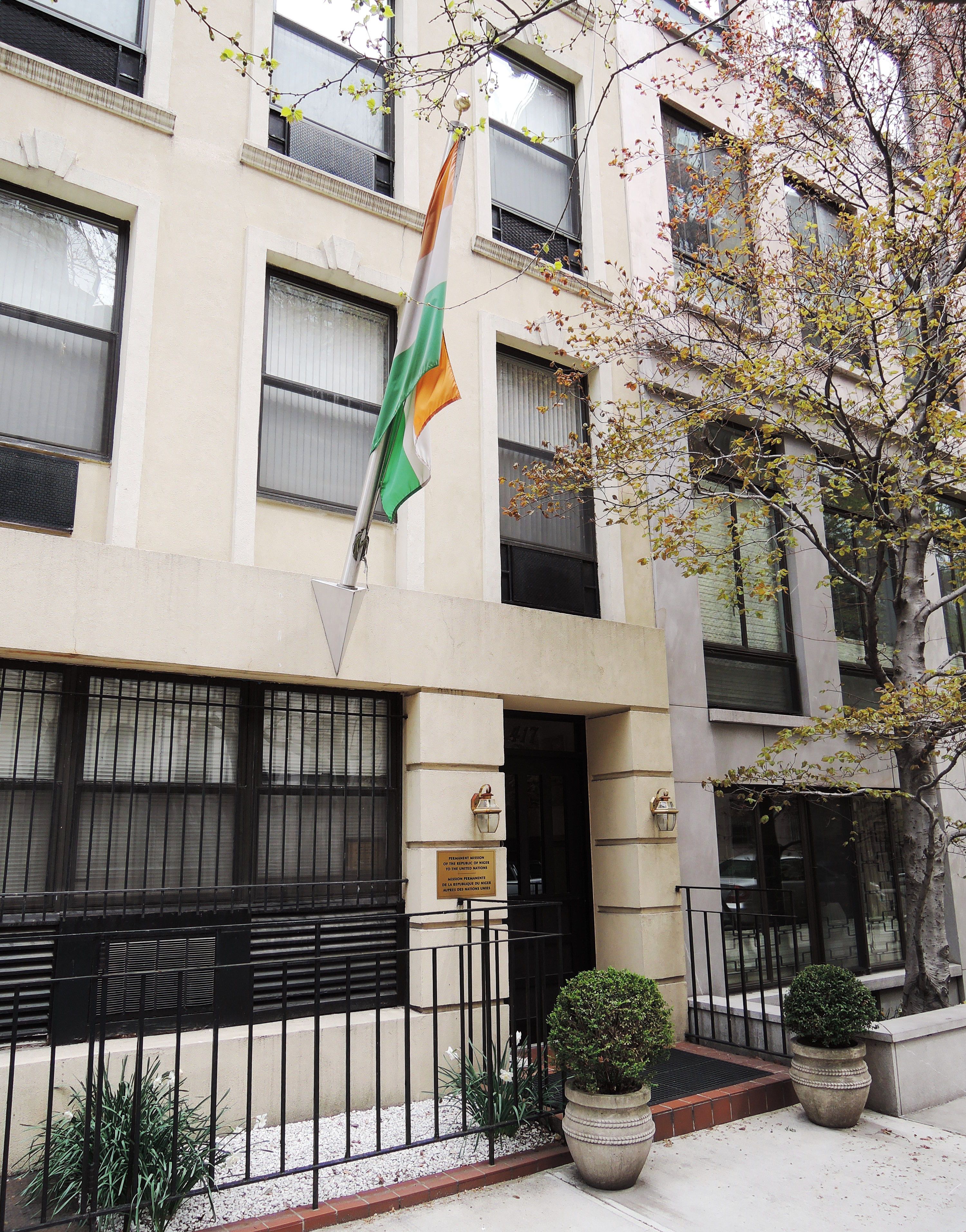 Looking east at Mission on 50th St.